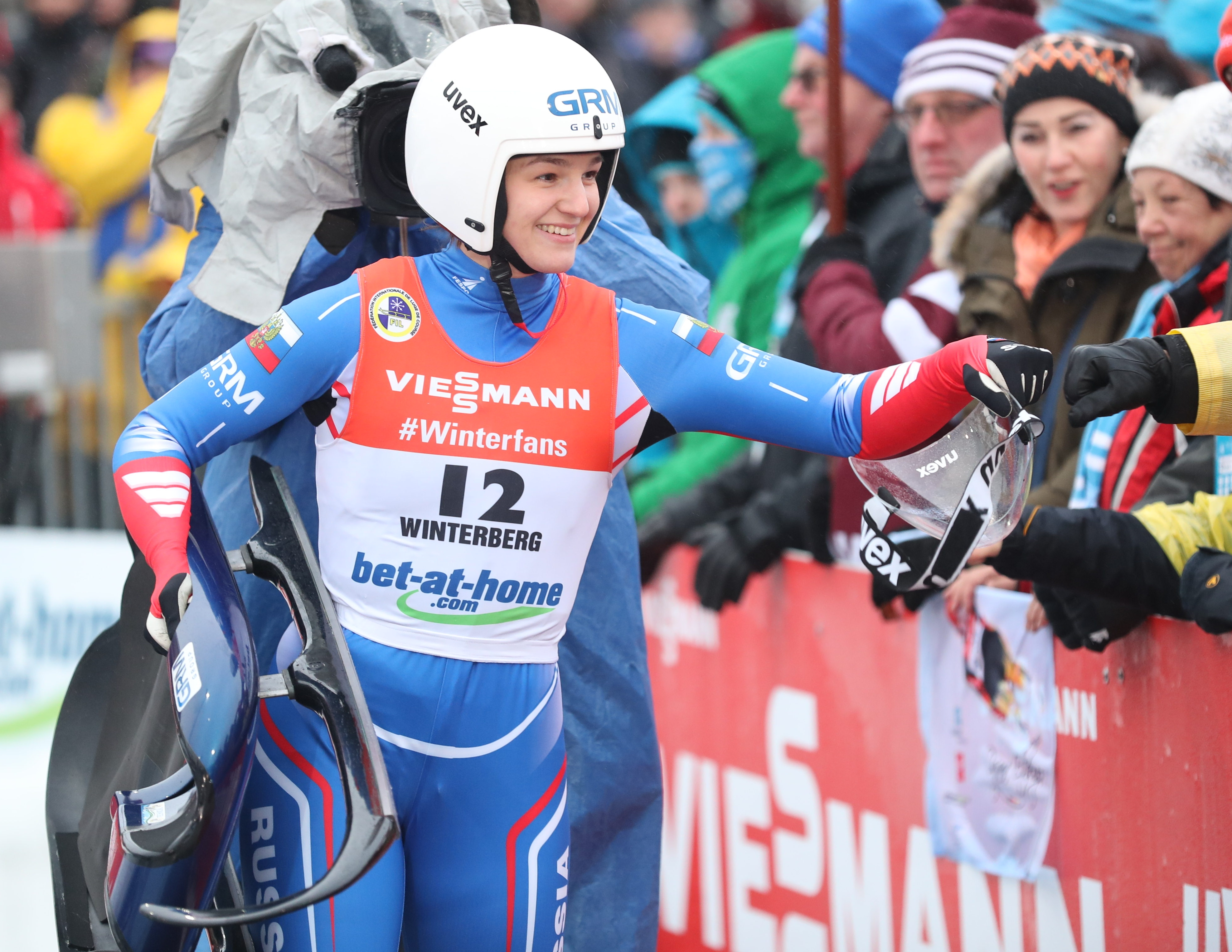 Women's race at the FIL World Luge Championships 2019 in Winterberg